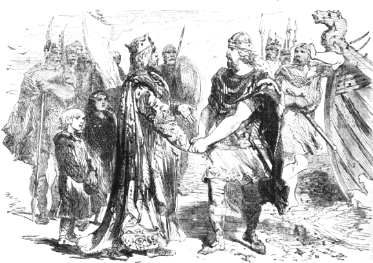 number = page #, image title = caption below image.